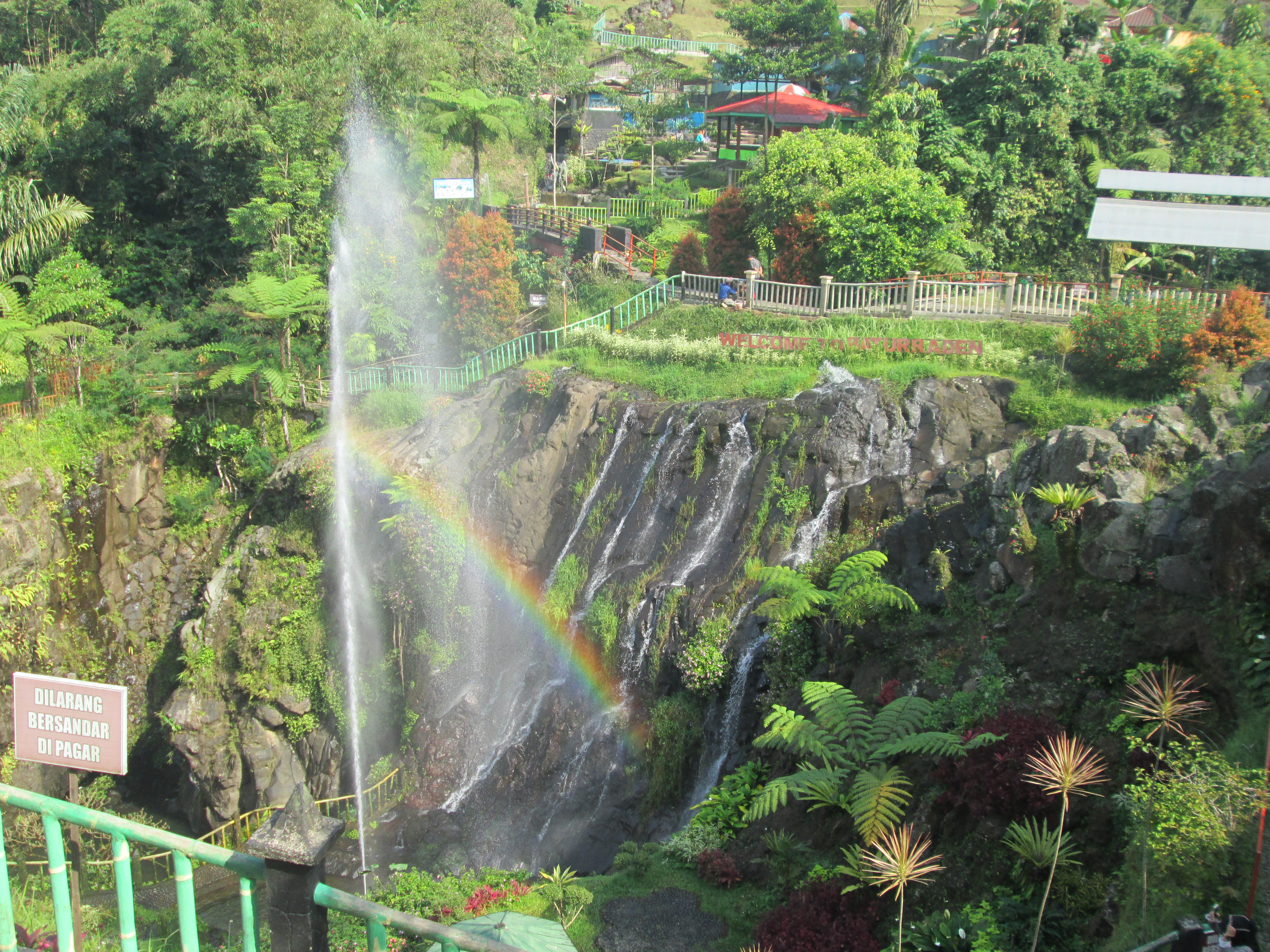 Baturaden is a district in the Banyumas Regency on the slope of Mount Slamet, Central Java. It features panoramic views, waterfalls, a mini-train, paddleboats, a water slide, and a pool.